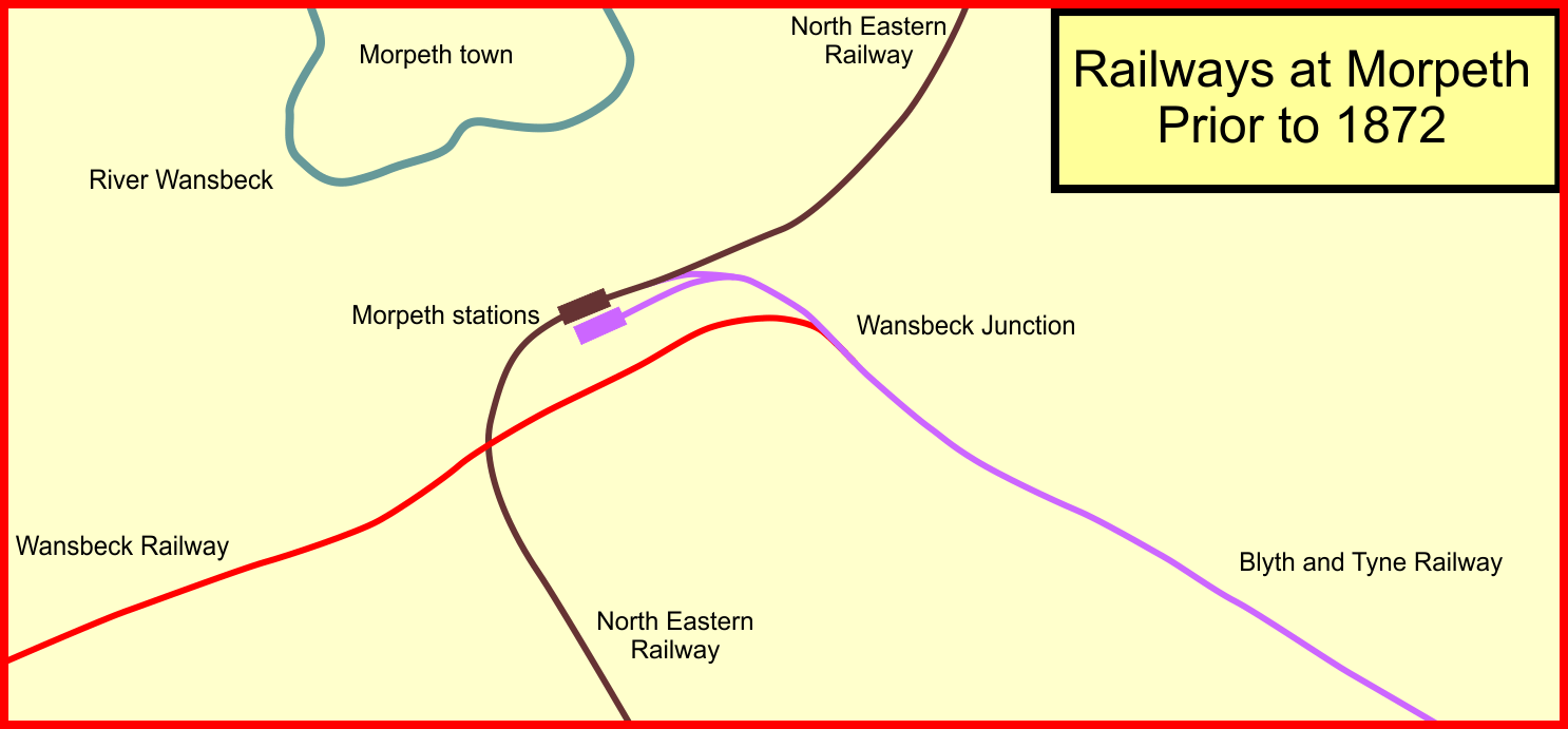 Configuration of the railways at Morpeth, Northumberland, prior to 1872